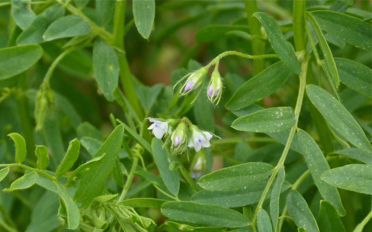 Lentil flowers, Lens culinaris, photographed near Meknès, Morocco.